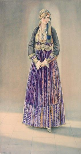 Greek Macedonian Peasant Woman's Dress (Macedonia, Naoussa) - Greek Costume Collection by NICOLAS SPERLING (Russia 1881-1940 / act: Athens).